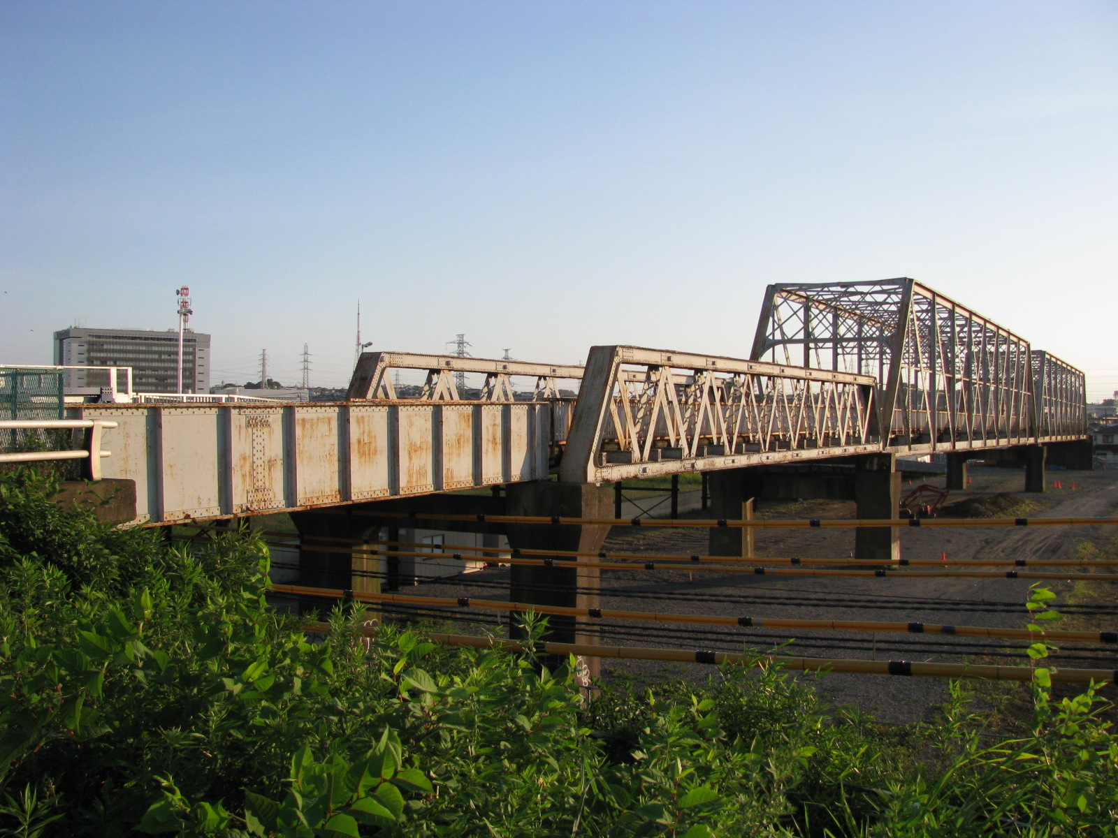 The Egasaki-kosen-kyo is a bridge on the Yokosuka Line, connecting Saiwai-ku, Kawasaki and Tsurumi-ku, Yokohama. This bridge was built in England, 1896. But this bridge was dismantled in 2009.